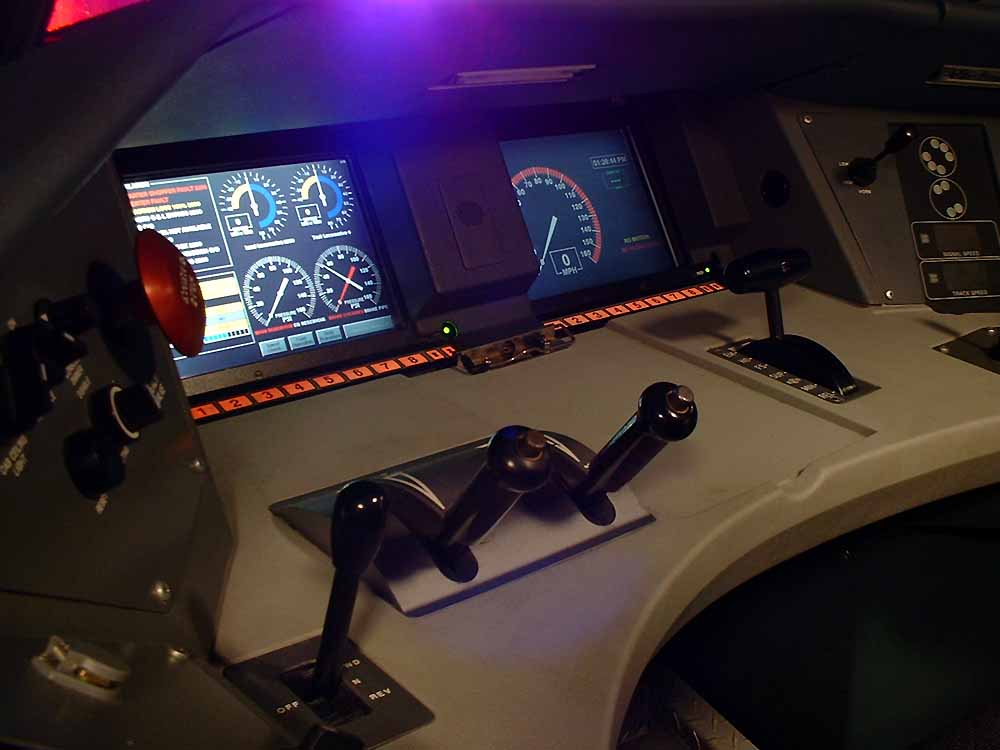 Bombardier Jet Train locomotive control panel.